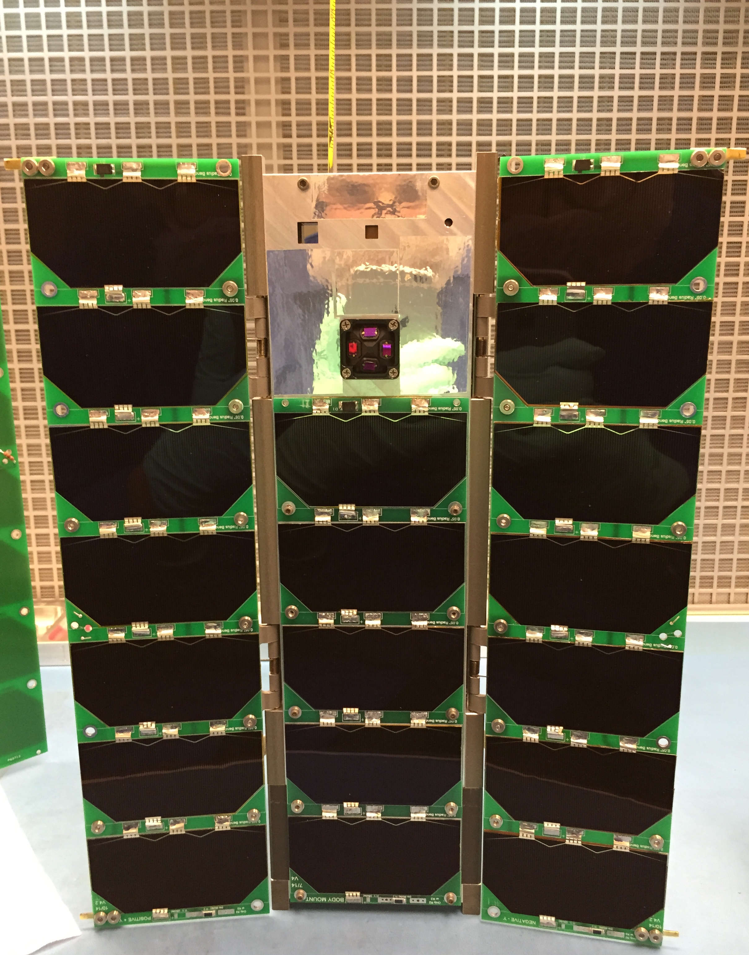 The sun-facing side of the MinXSS spacecraft. The two hinged solar panels are in their deployed state. The science instrument apertures can be see near the top. The tape-measure antenna extends beyond the top of the photo. Image taken after final integration of the spacecraft. Credit: James Paul Mason, University of Colorado at Boulder, Laboratory for Atmospheric and Space Physics